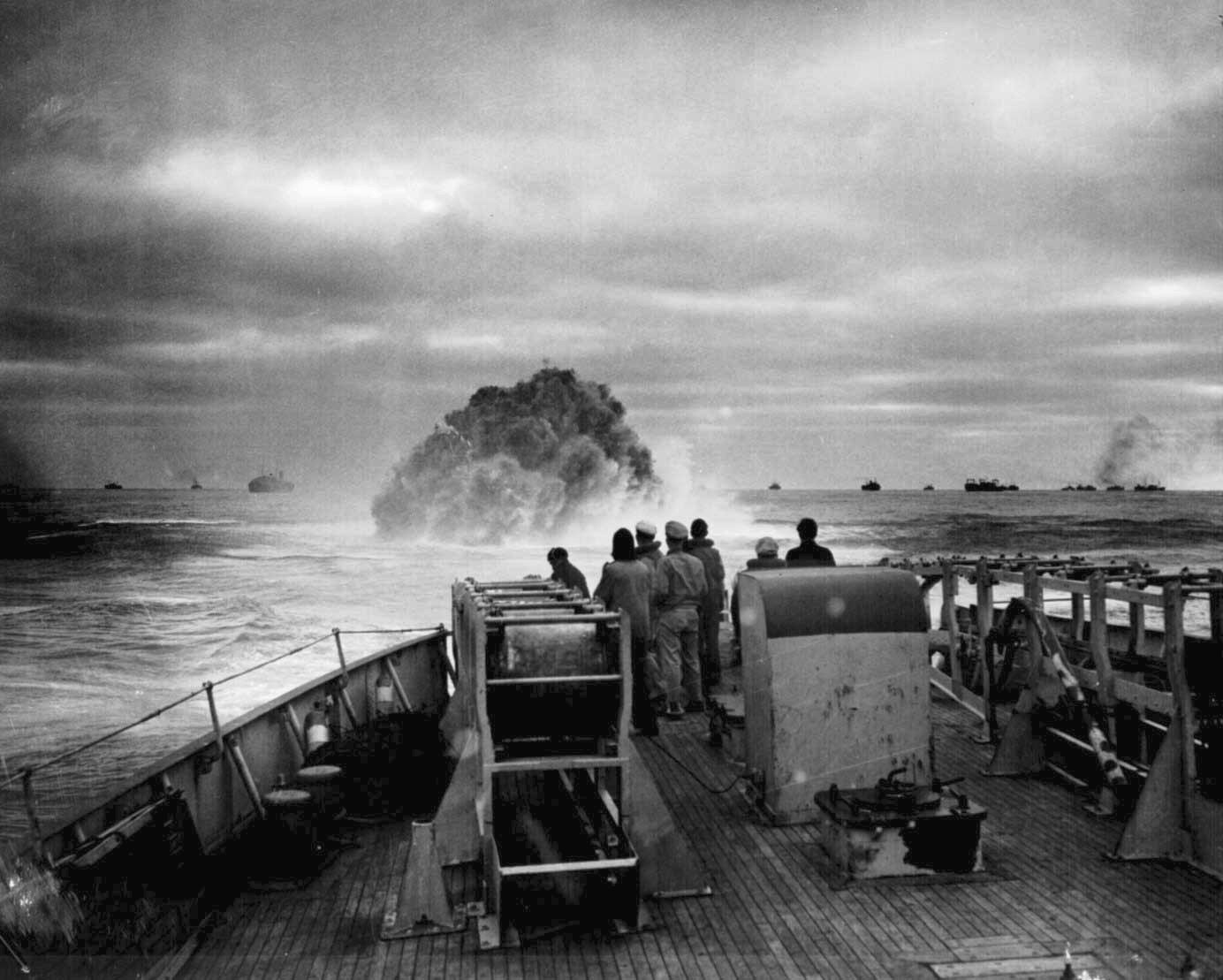 US Coast Guard crew of cutter Spencer watched as a depth charge exploded near U-175, North Atlantic, 500nm WSW of Ireland, 17 Apr 1943